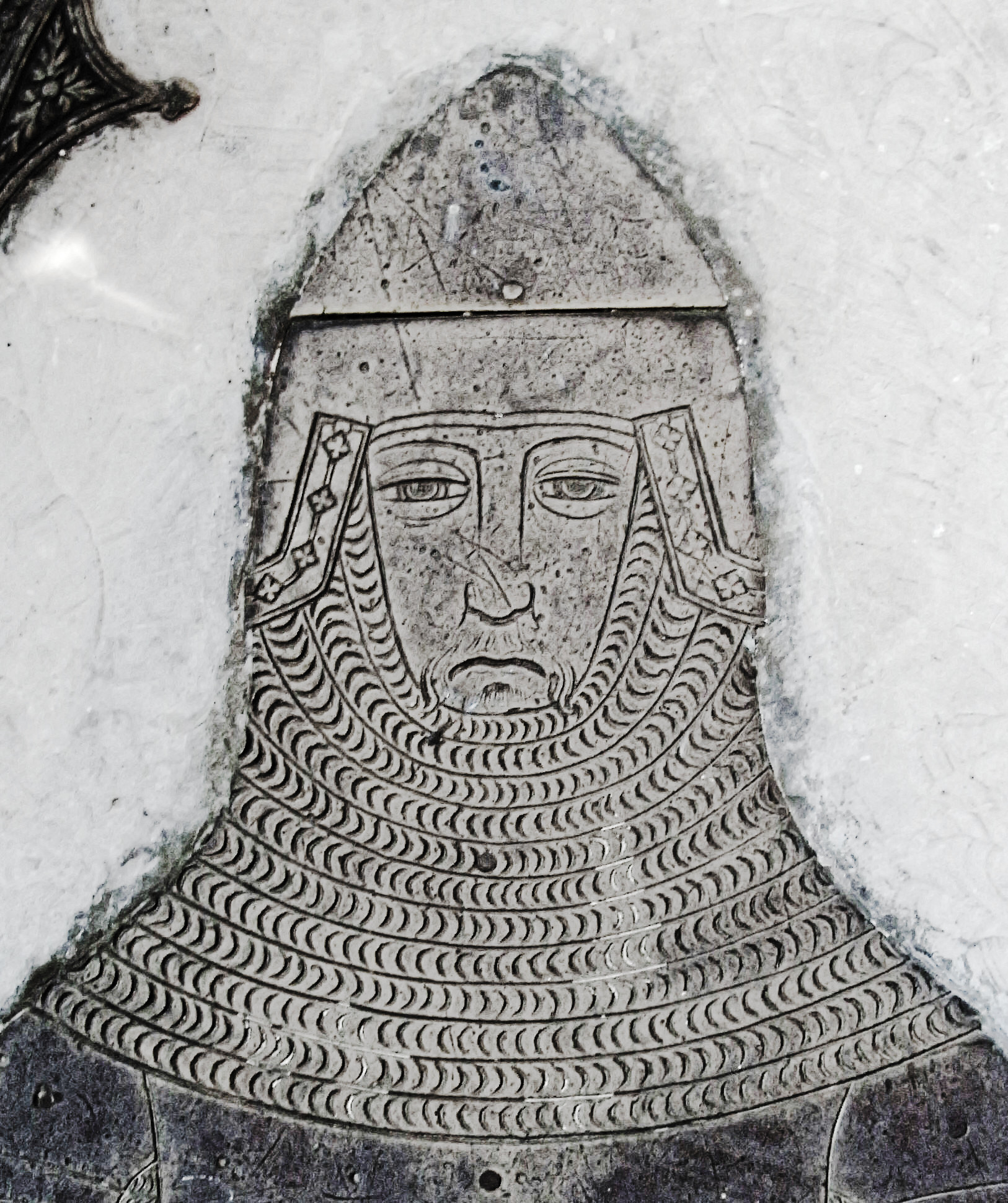 Sir Maurice Russell (2 February 1356 – 27 June 1416), a High Sheriff of Gloucestershire, on a monumental brass featuring him and his wife Isabel Childrey at St. Peter's Church, Dyrham, South Gloucestershire, England, UK.